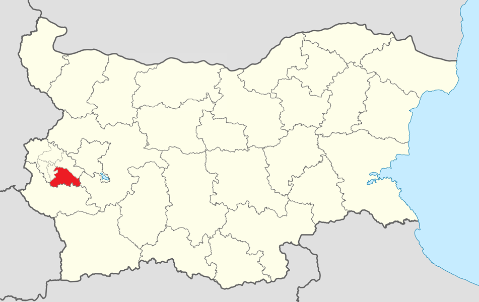 Location map of Radomir Municipality within Bulgaria and Pernik province